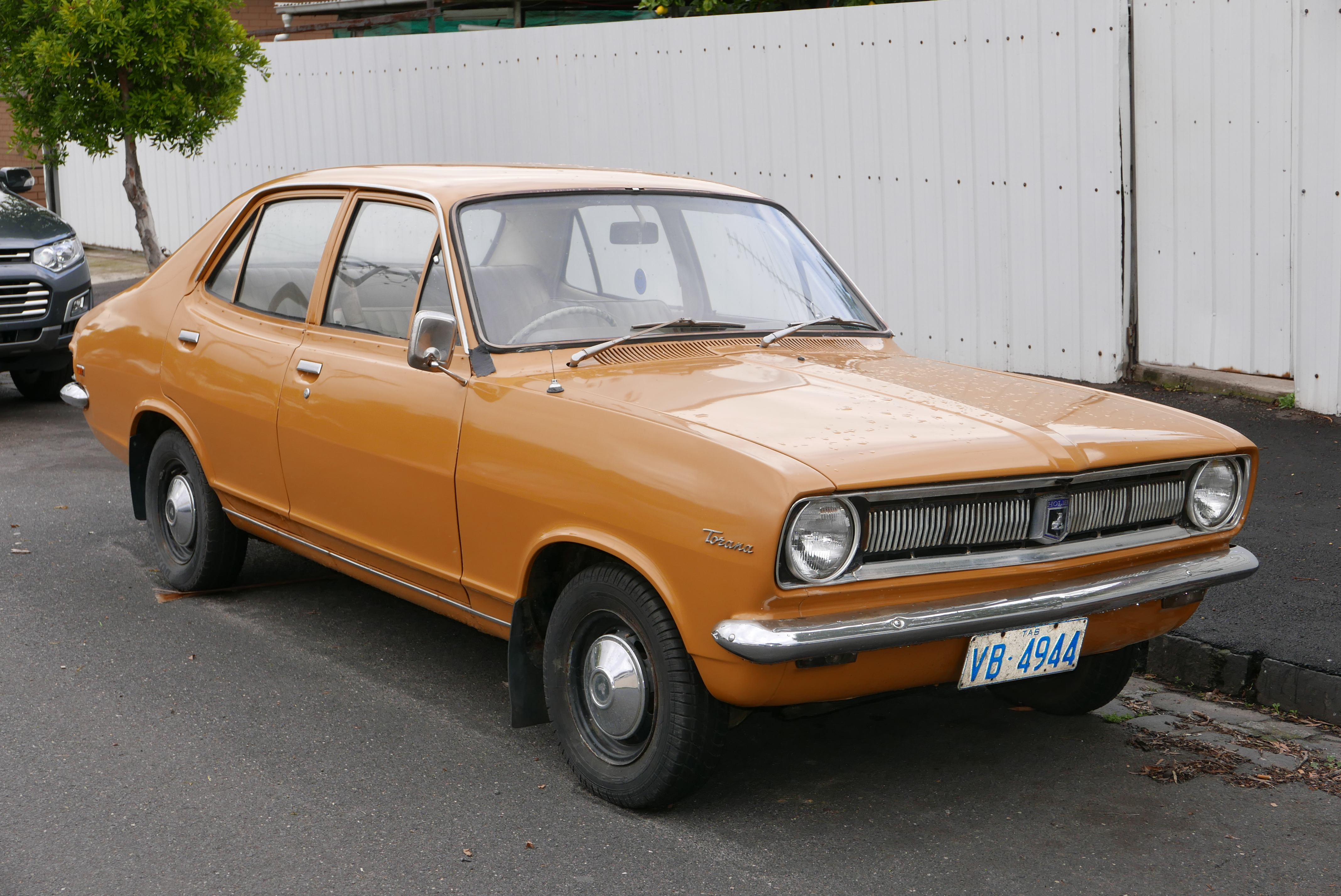 1971 Holden Torana (LC) Deluxe 1200 4-door sedan. Photographed in Brunswick, Victoria, Australia.This has been listed as a Deluxe model as per a 2014 advertisement for this same car. It has also been listed as the 1200 model as opposed to the 1600 because the later has "1600" badges on the front fender panels underneath the "Torana" badge as per the original sales brochure. Vehicle registration enquiry results Jurisdiction Tasmania Registration VB4944 Engine code 1581349 Year of manufacture 1971